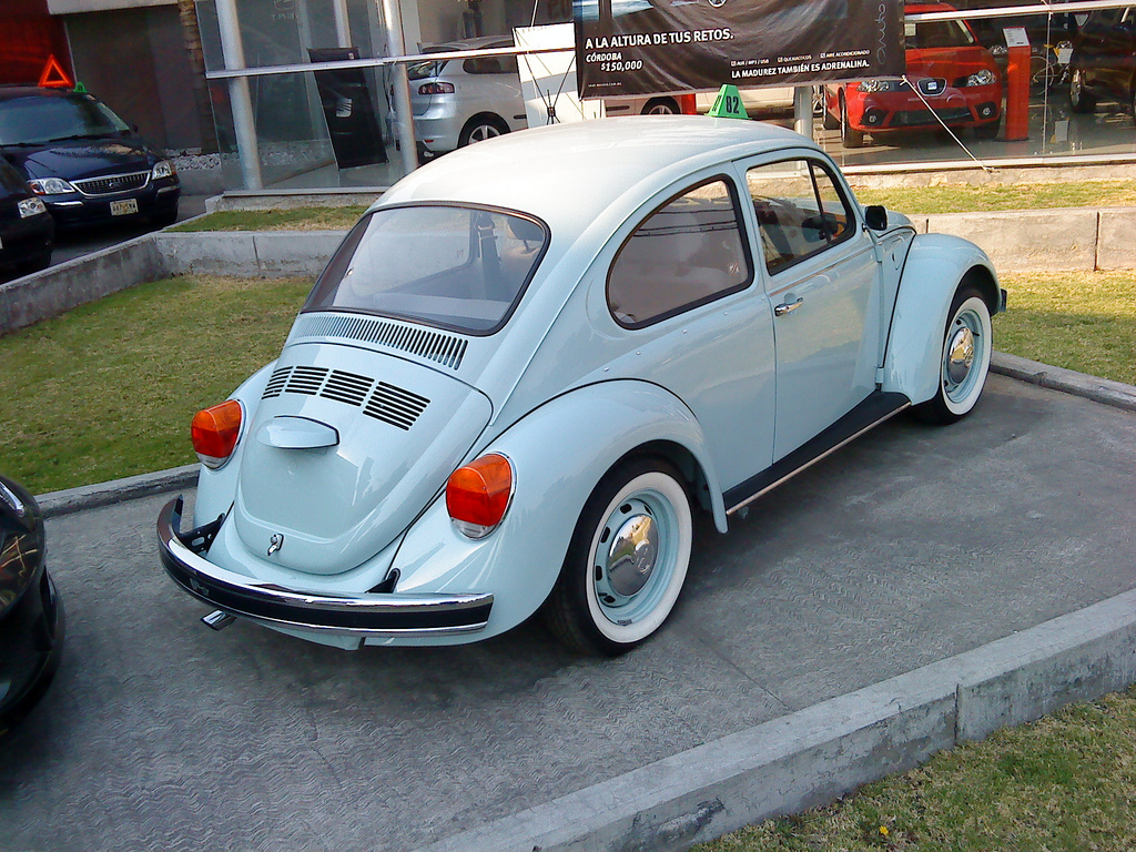 A Last Edition Volkswagen Beetle.